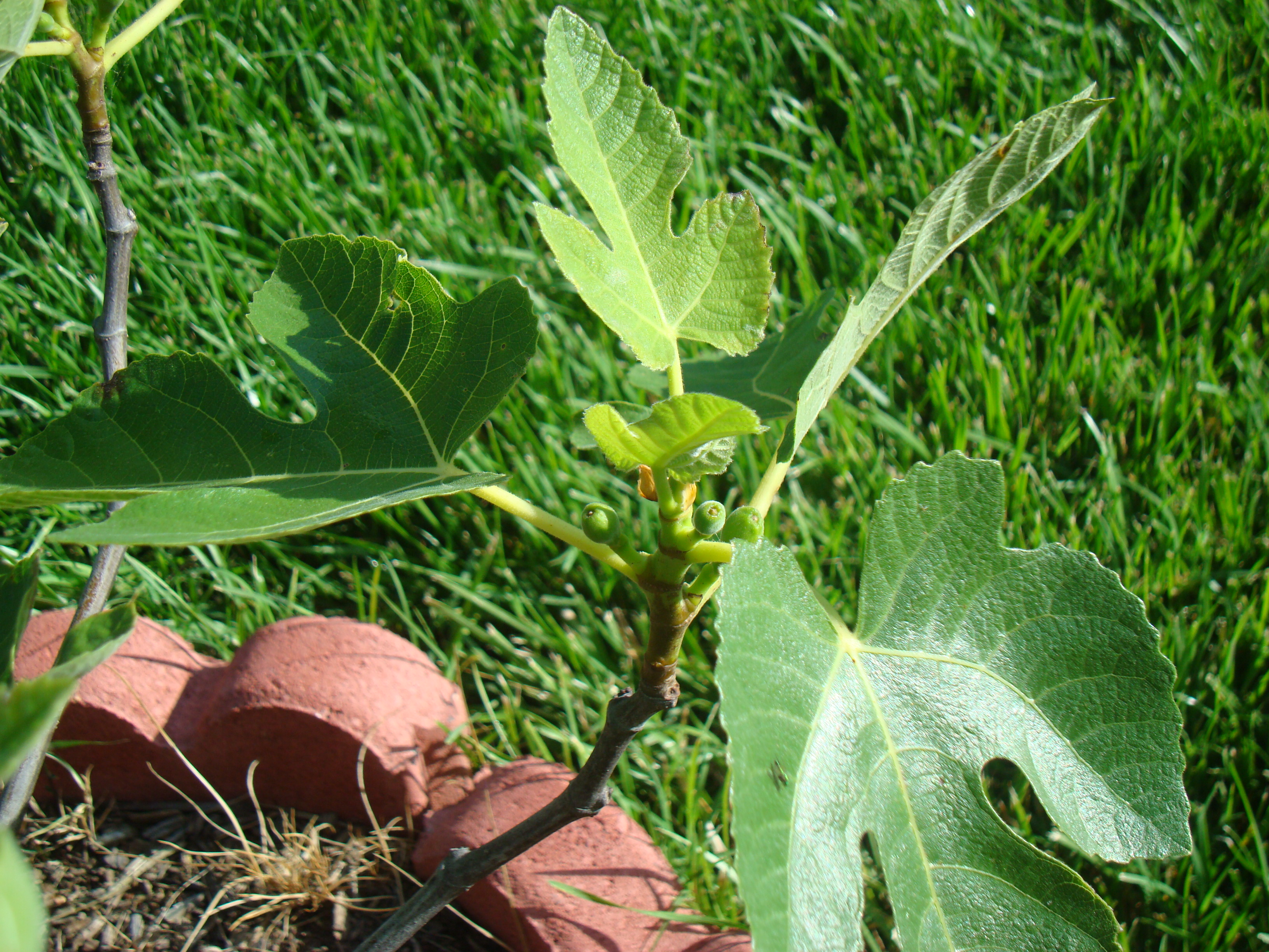 Ficus carica 'Celeste' leaves and baby figs.